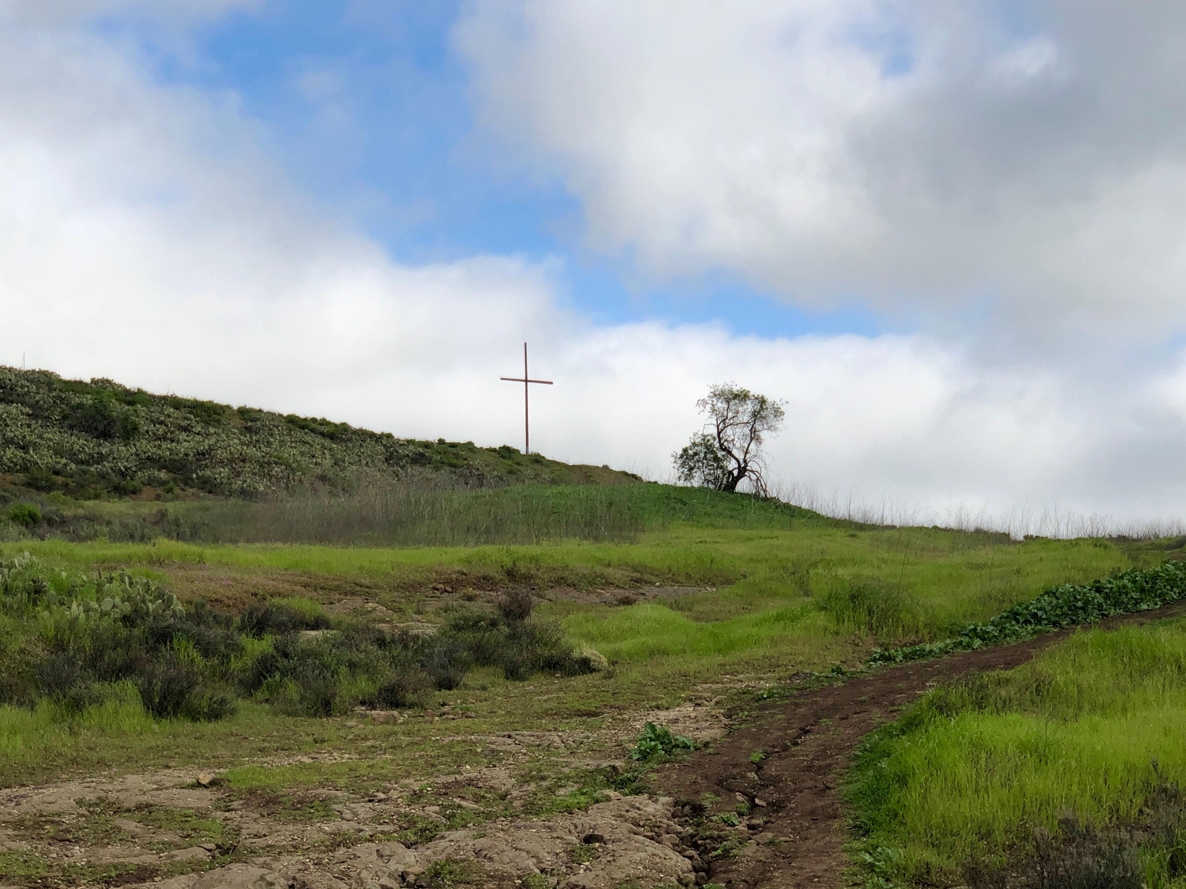 The cross atop Mount Clef Ridge on the campus of California Lutheran University.